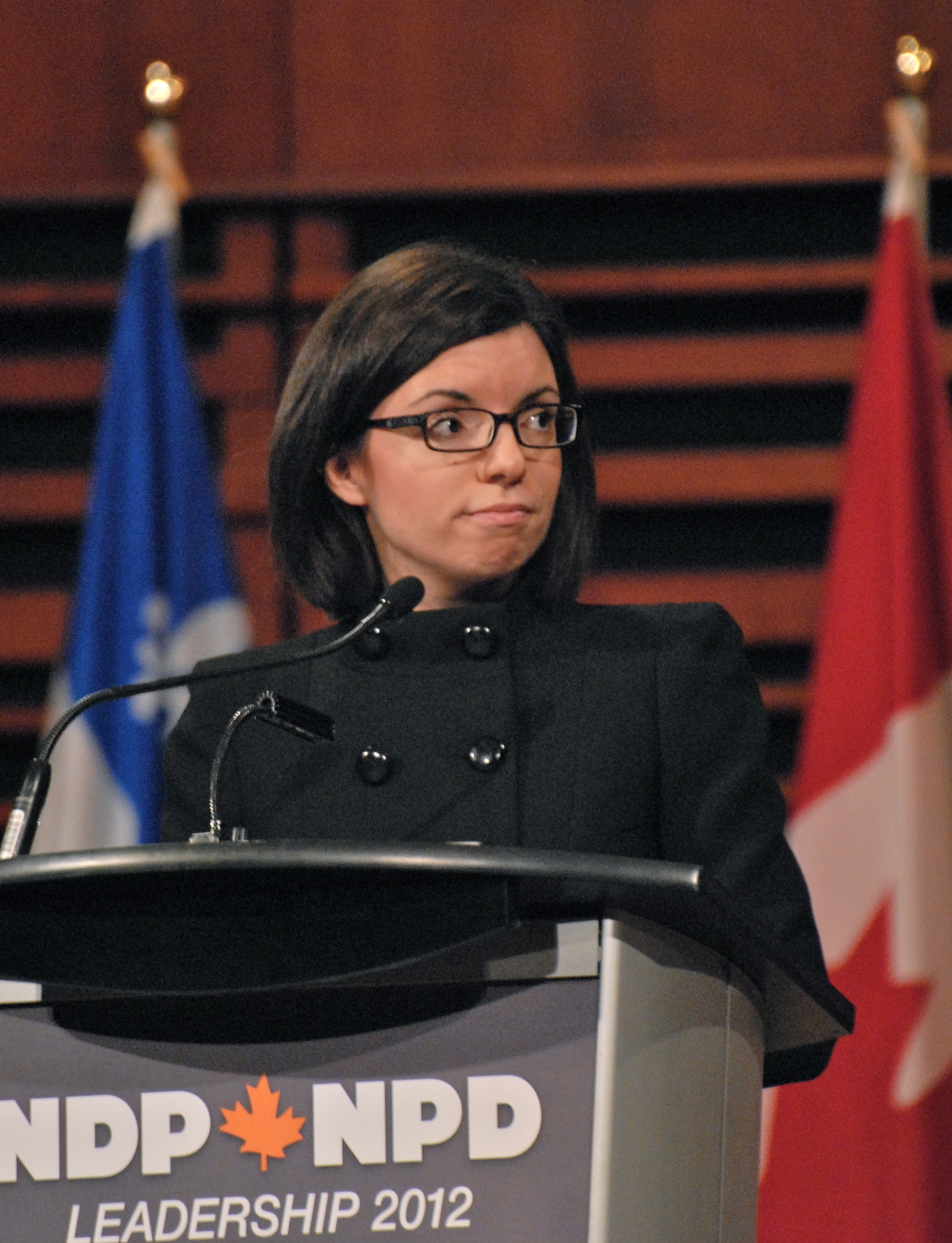 Niki Ashton, New Democratic Member of Parliament for the electoral district of Churchill, during the debate of the candidates to the leadership of the New Democratic Party of Canada, February 12, 2012 in Québec